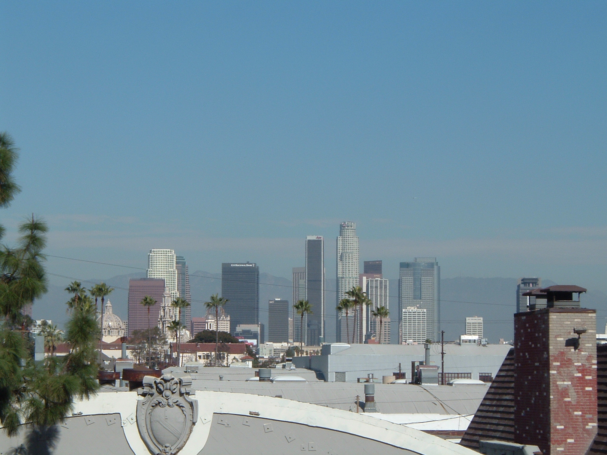 The towers of the Financial District, the center of Downtown Los Angeles. There are some skyscrapers not pictured to the left and right, but they are few in number.